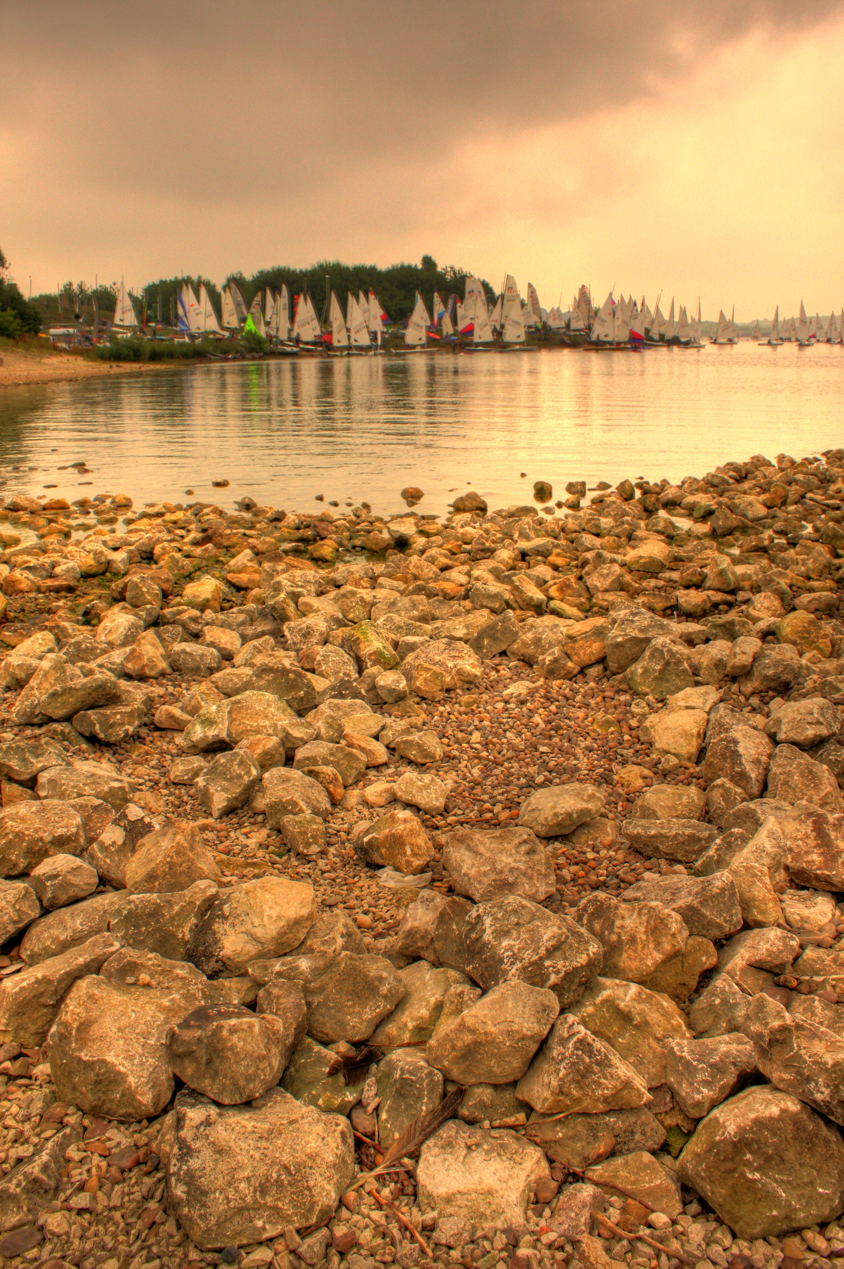 A photograph of Carsington Reservoir